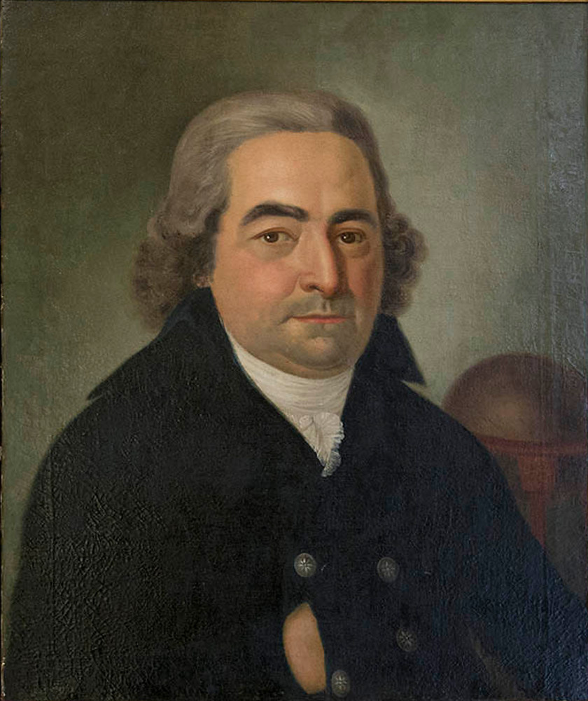 Portrait of Longinus Anton Jungnitz (1764-1831)